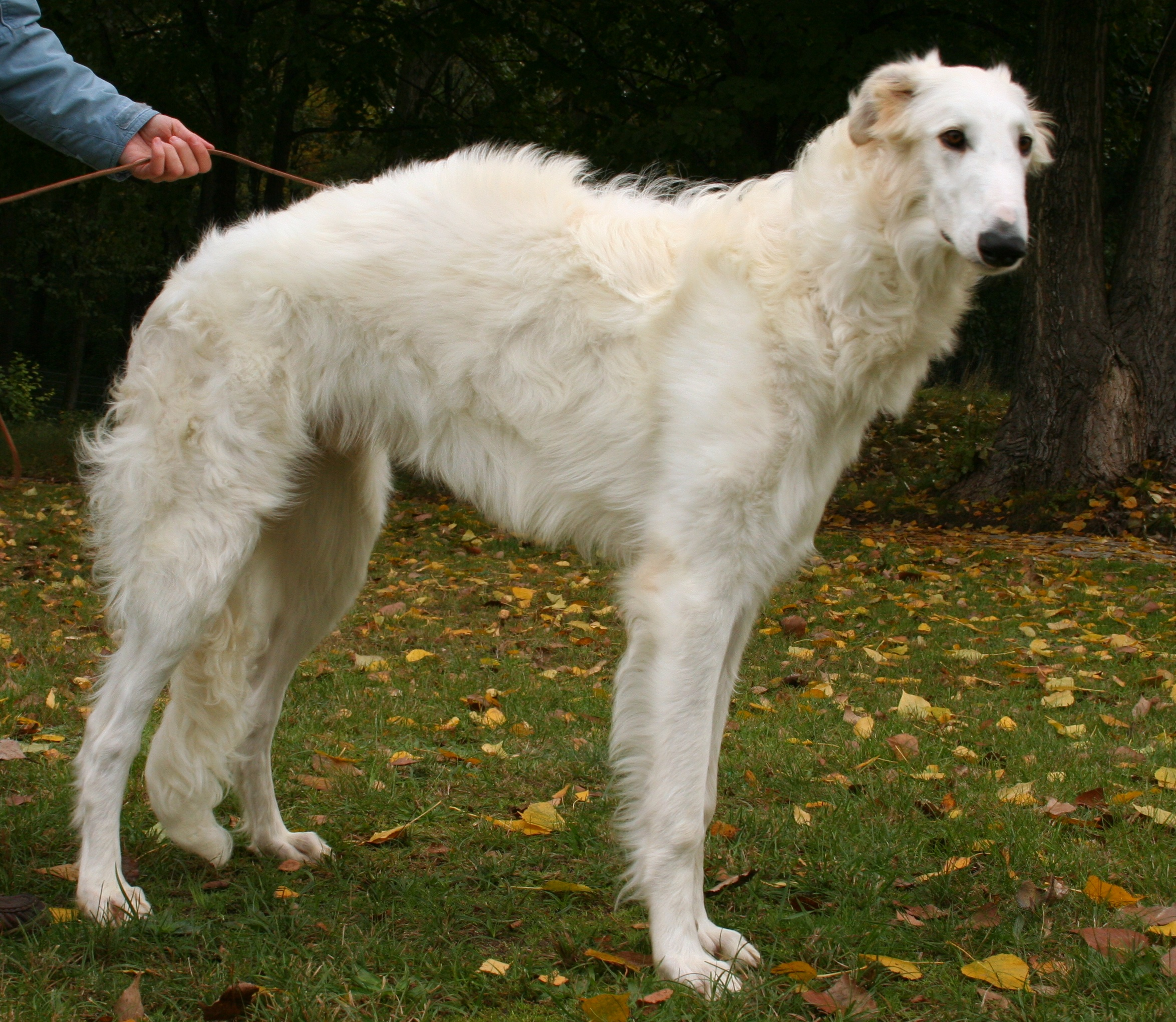 Barzoï during show of dogs in Rybnik - Kamień, Poland